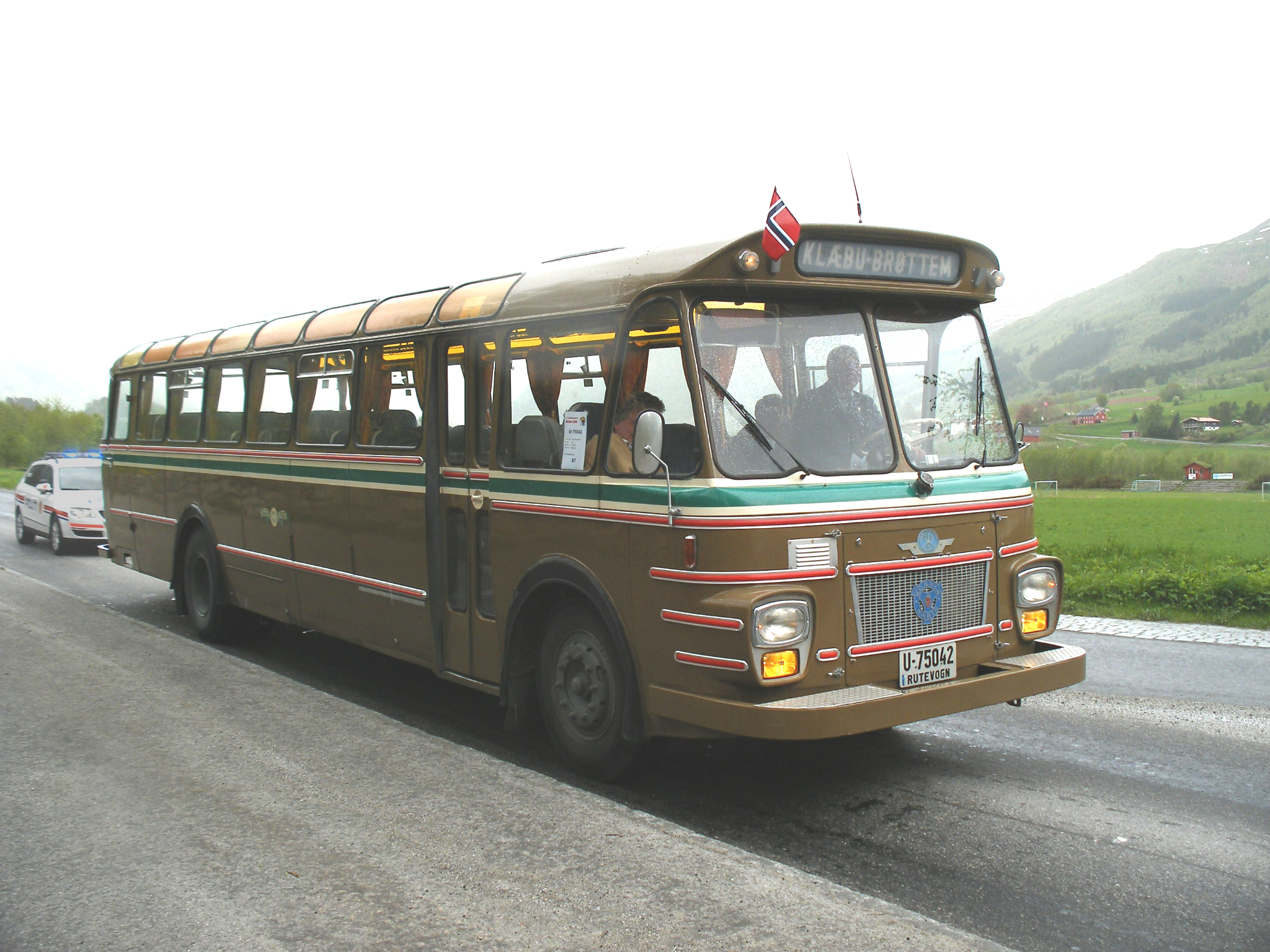 Old bus from Norway. Scania Vabis. Klæbu ruten.